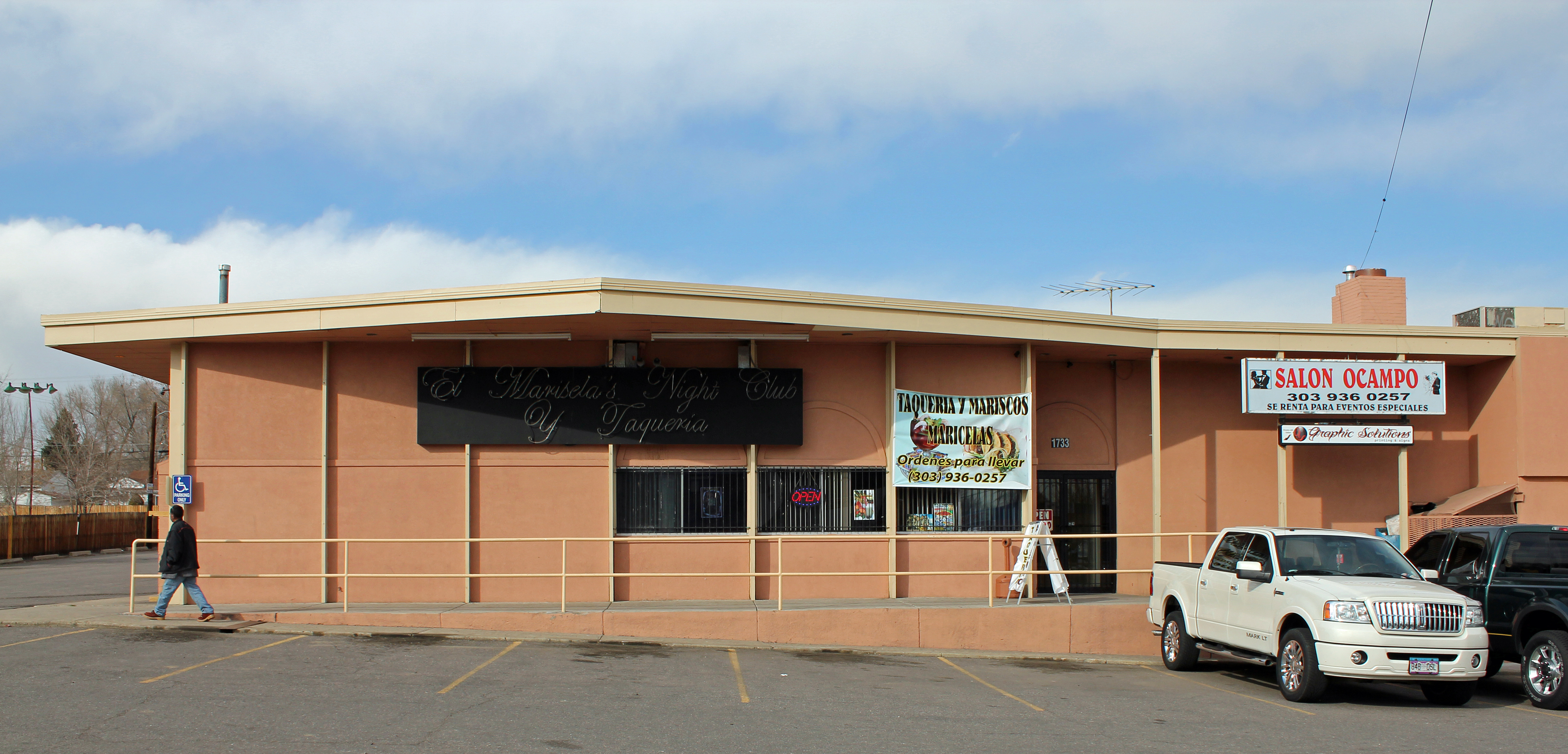 Salon Ocampo, a restaurant and function room located in the Athmar Park neighborhood of Denver, Colorado.